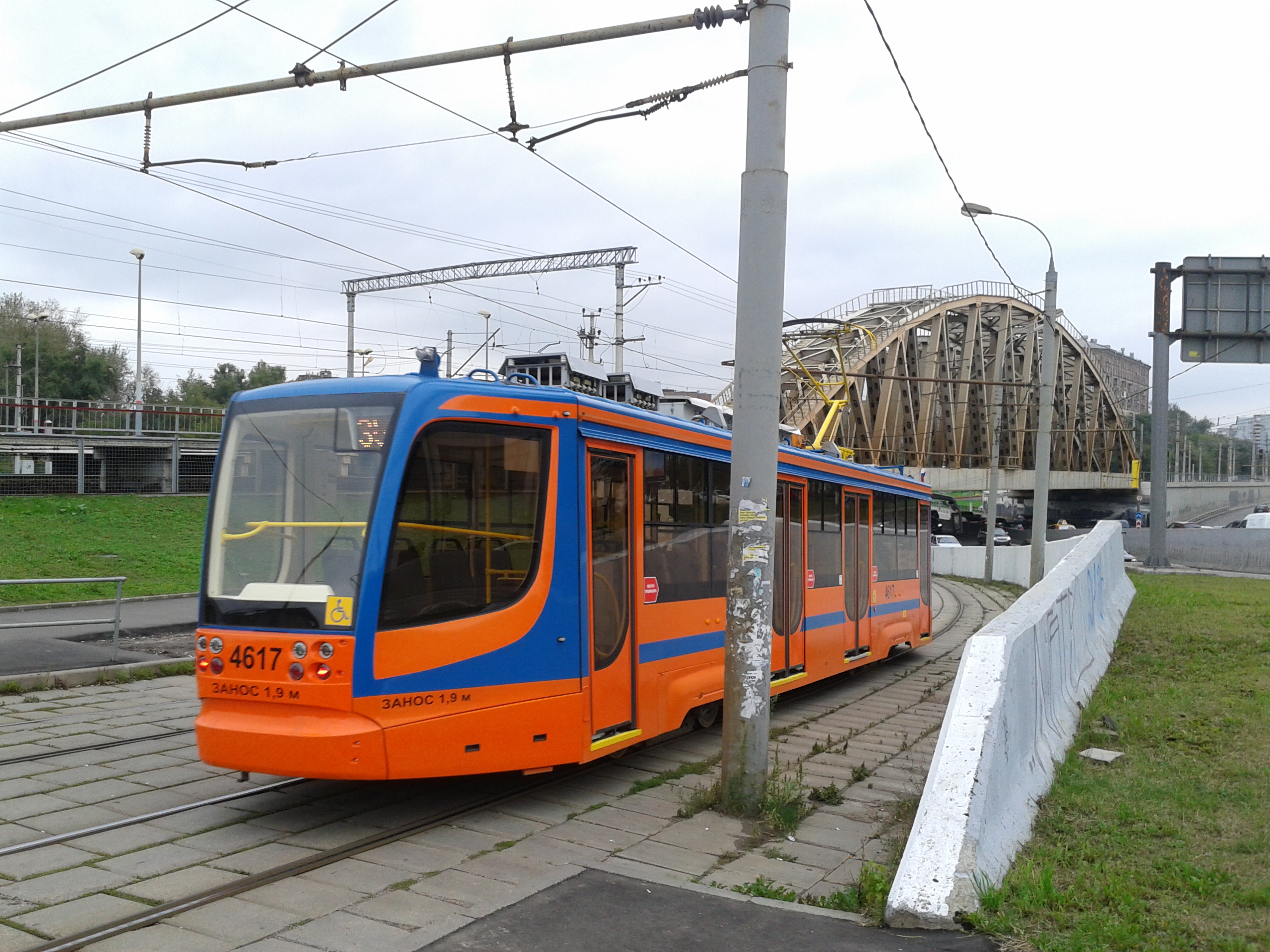 Tram No. 35 (type 71-623, aka KTM-23) in Moscow, Russia (Bolshaya Tulskaya street, near ZIL railroad station